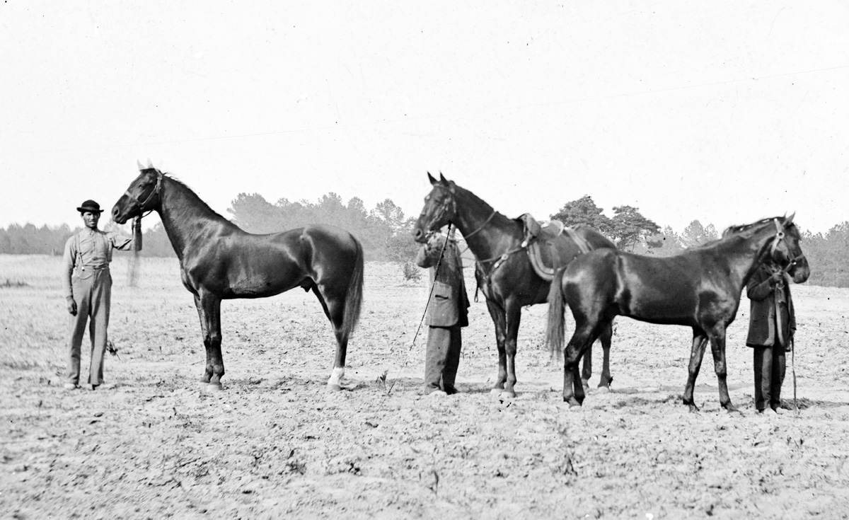 Cropped image from the Library of Congress by Hal Jespersen. Title: Cold Harbor, Virginia. U.S. Grant's horses: on left, EGYPT, center, CINCINNATI, right, JEFF DAVIS Date Created/Published: 1864 June 14. Medium: 1 negative (2 plates) : glass, stereograph, wet collodion. Reproduction Number: LC-DIG-cwpb-01695 (digital file from original neg. of left half) LC-DIG-cwpb-01696 (digital file from original neg. of right half) Rights Advisory: No known restrictions on publication. Call Number: LC-B811- 2429 [P&P] Repository: Library of Congress Prints and Photographs Division Washington, D.C. 20540 USA Notes: Caption from negative sleeve: Lt. Gen. Grant's three horses taken at Cold Harbor, Va. Miller, vol. 4, pp. 290-91. Two plates form left (LC-B811-2429A) and right (LC-B811-2429B) halves of a stereograph pair. Forms part of Civil War glass negative collection (Library of Congress).